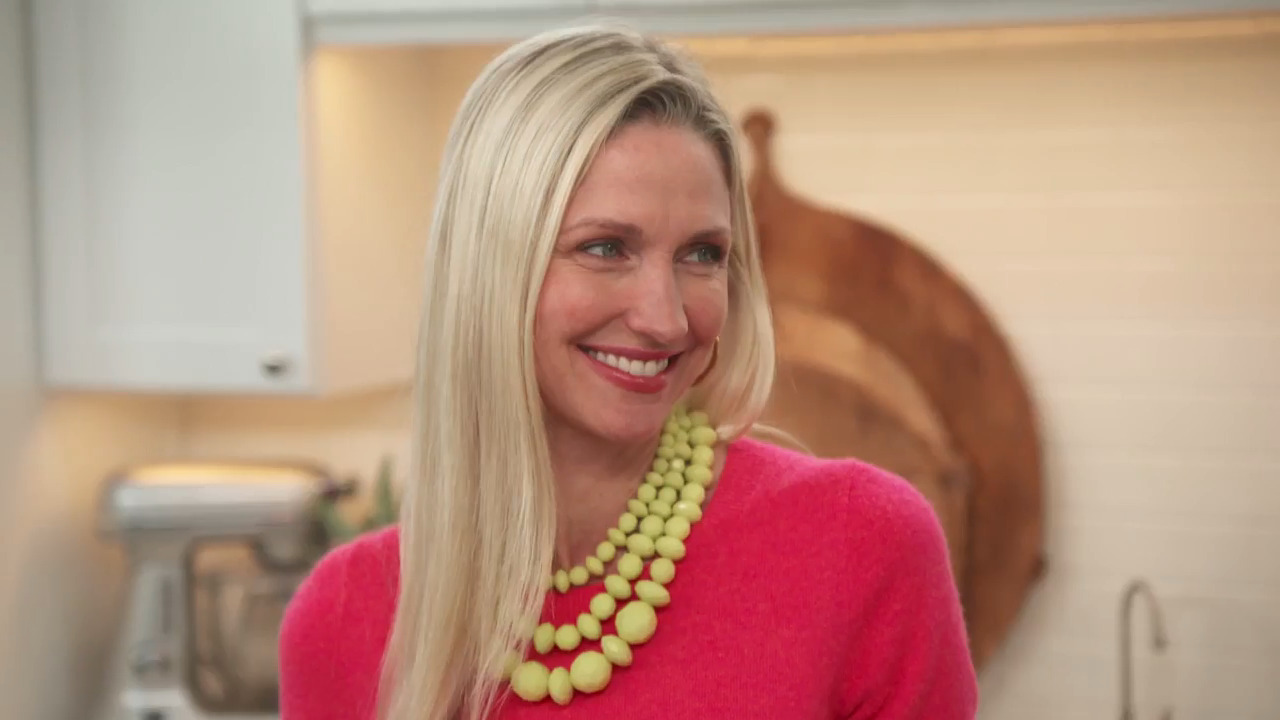 "Naturally, Danny Seo: Yogurt Bark" at 0:13